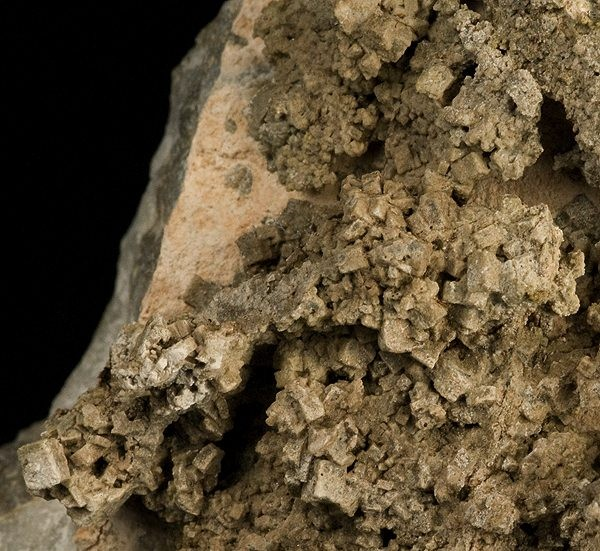 Bicchulite, Gehlenite Locality: Fuka mine, Bitchu-cho (Bicchu-cho), Takahashi, Okayama Prefecture, Chugoku Region, Honshu Island, Japan (Locality at ) Size: 8.5 x 7.3 x 3.9 cm. Bicchulite is a very rare calcium silicate and this very rich and showy specimen is from the Type Locality - the Fuka Mine of Japan. Sharp, gray, rectangular crystals to 4 mm of bicchulite pseudomorphs after gehlenite crystals richly cover the quartz-rich matrix on this specimen. Gehlenite is also a very rare calcium silicate. The Fuka Mine recovered high grade calcite for the toothpaste industry and is noted for interesting high temperature boron species.